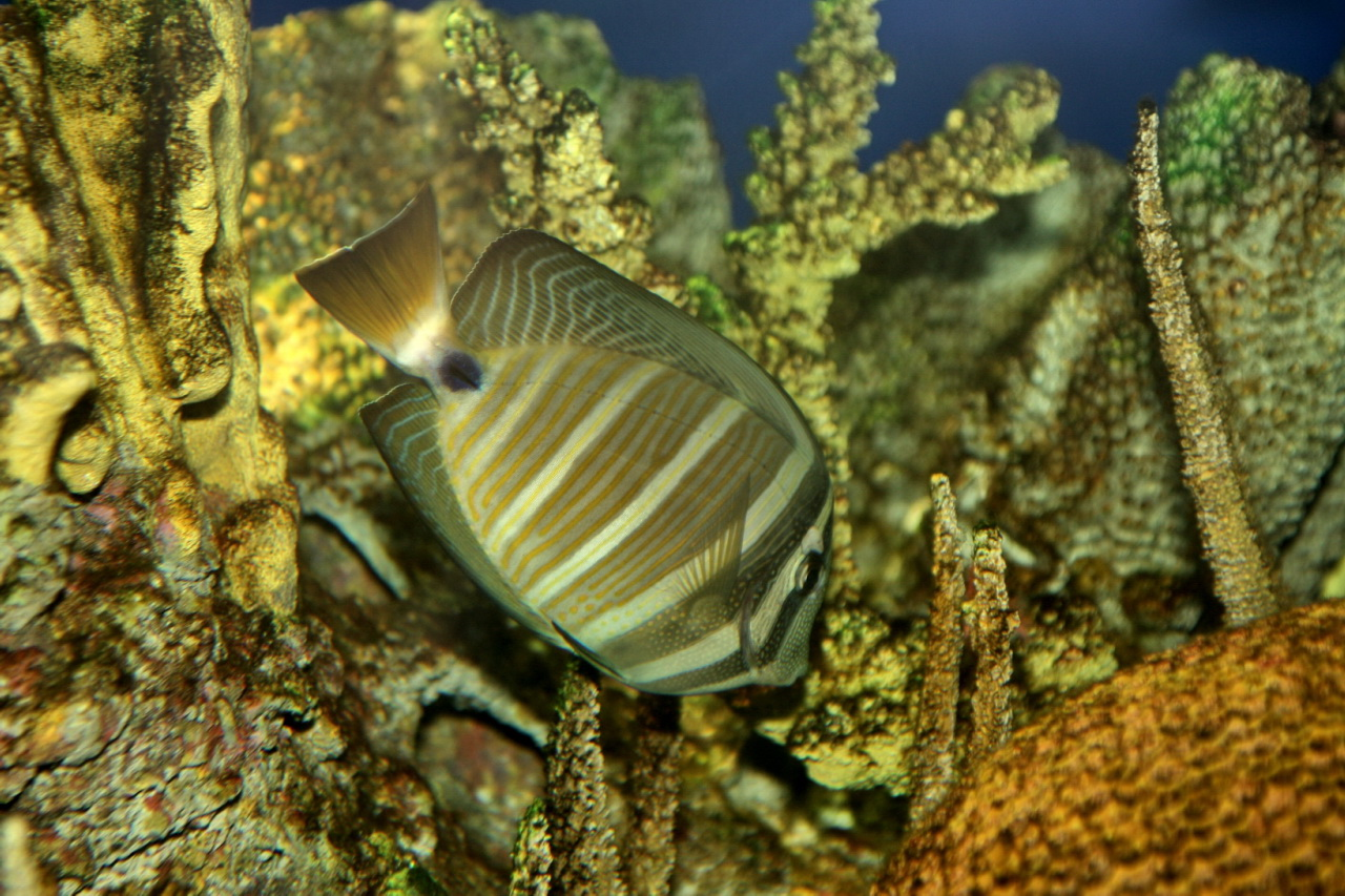 Among its many attributes, the beauty and personality of the Sailfin Tang make it an outstanding addition to a marine aquarium. Like all seven of the sailfin tang species, when the fins of the Sailfin Tang are fully extended its height is about the same as its length, giving it a disk-shaped appearance. Though very similar looking to its close relative the Desjardin's Sailfin Tang Z. desjardinii, it is more common and is less expensive. It is hard to tell the difference between these two when they are young. As adults however the Pacific Sailfin Tang retains its attractive juvenile appearance though becoming less yellow, while the Desjardin's Sailfin Tang will change stripes for spots and lightens in color. They will both get quite large, in fact they are the largest of the Zebrasoma species.